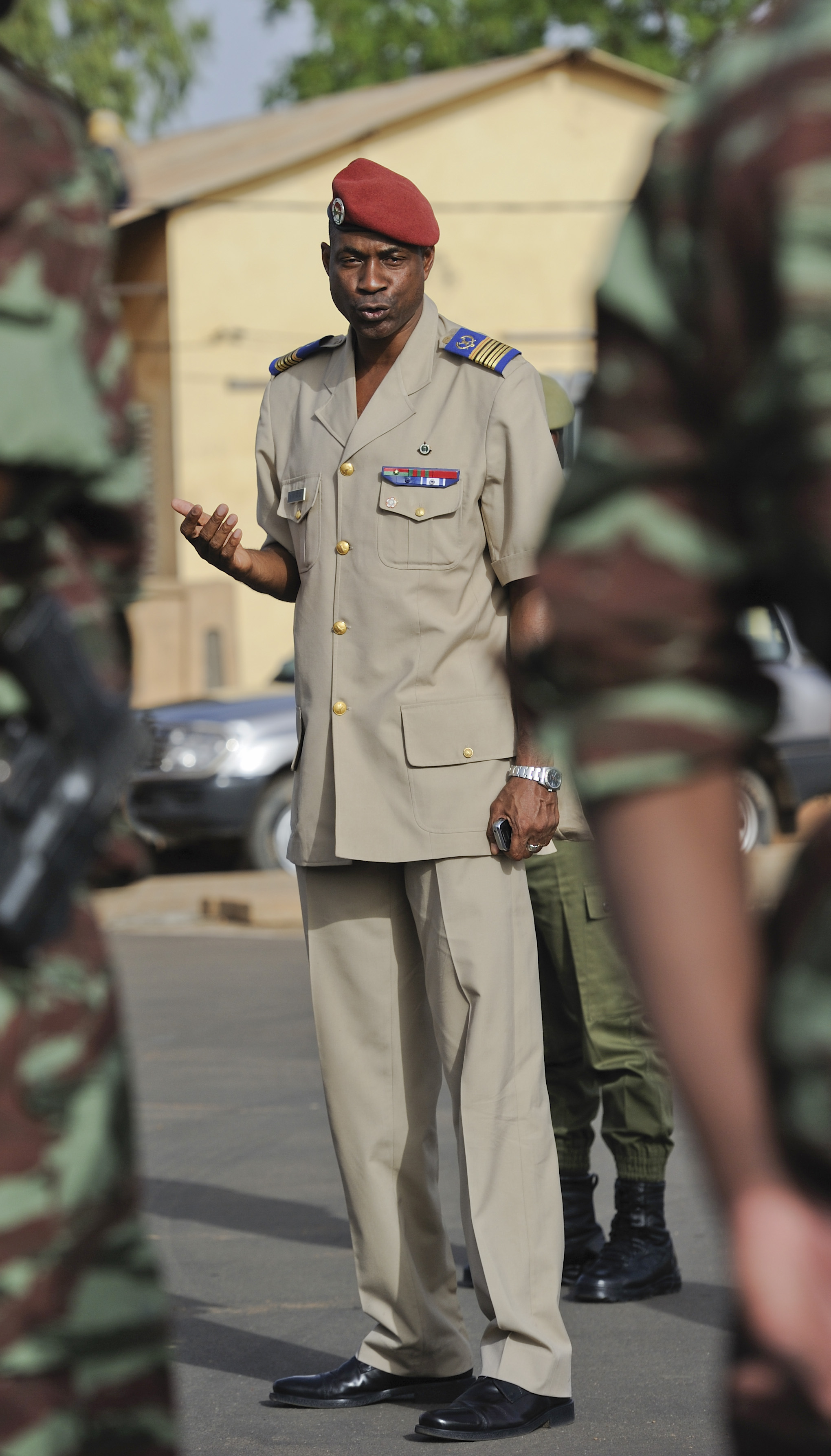 Burkinabe Col. Gilbert Diendere, chief of staff of the President of Burkina Faso and President of the Burkina Faso Flintlock 2010 Committee, addresses Burkinabe soldiers prior to their deployment to Mali in support of exercise Flintlock 10 in Ouagadougou, Burkino Faso, May 1, 2010. About 40 soldiers boarded the C-130J to deploy for counterterrorism training with U.S., Malian and European partners. Flintlock 10 is a special operations forces exercise and is part of a U.S. Africa Command-sponsored annual program with partner nations in Northern and Western Africa.